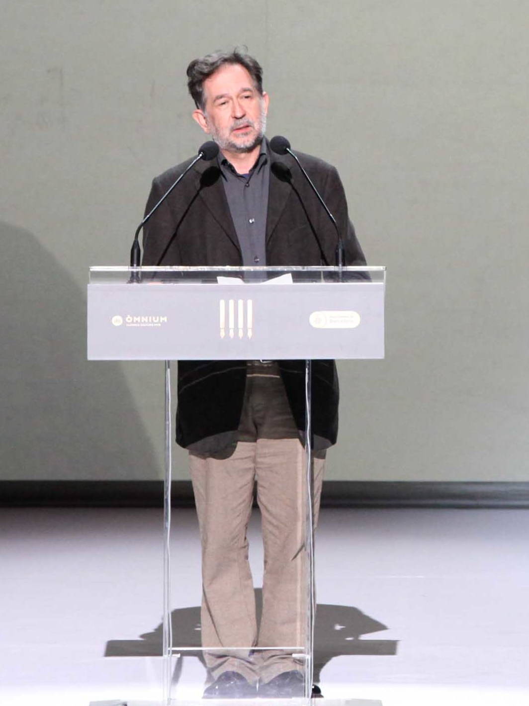 Festa de les Lletres Catalanes 2014. + Fotos: Òmnium / Ramon Boadella